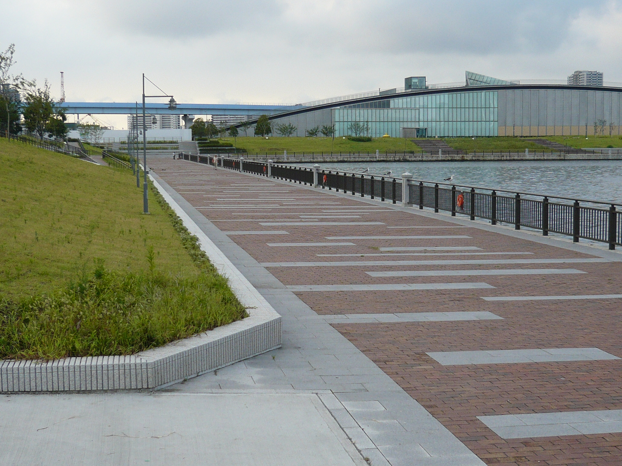 Harumibashi Park(春海橋公園) in Koto-ku,Tokyo,Japan.